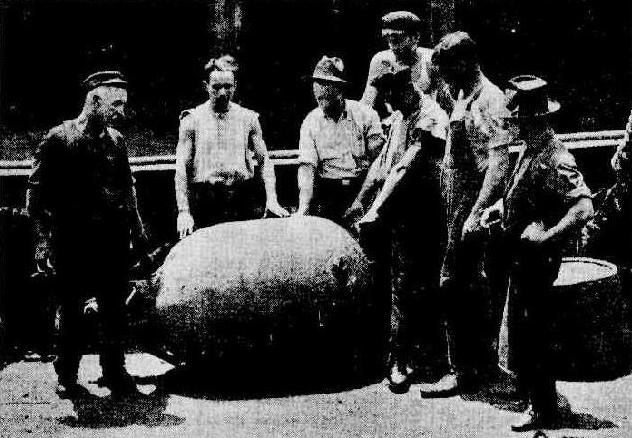 The Koraaga. Built 1914 with a mine trawled up from near Gabo island from the Raider Wolf